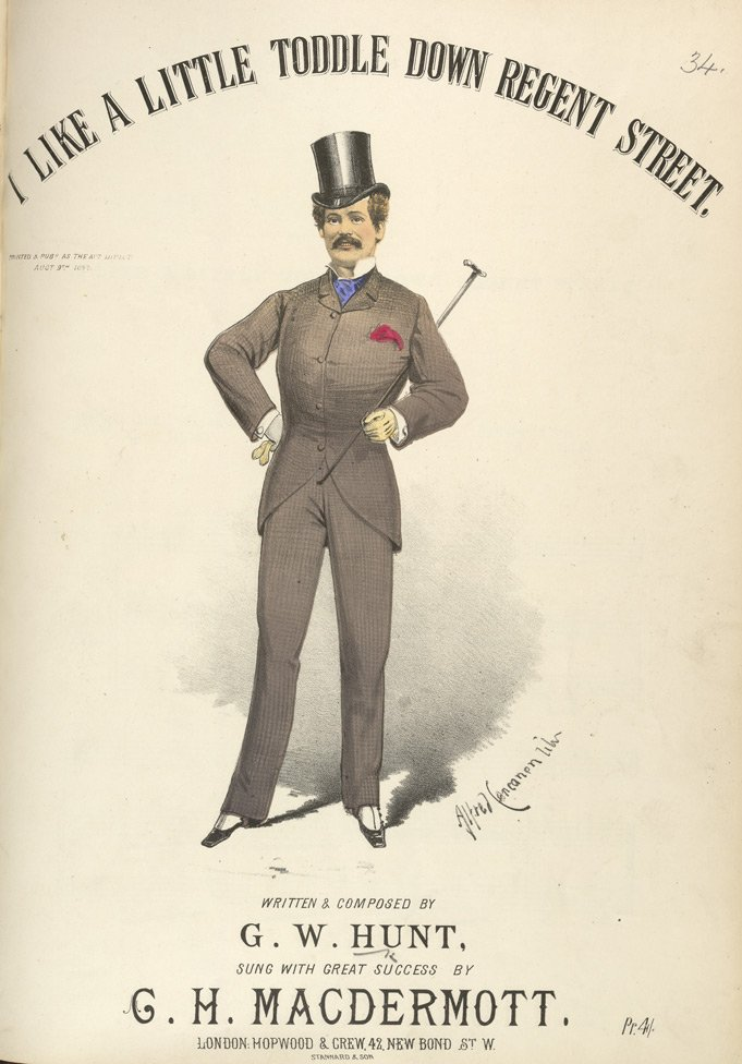 Cover of sheet music of G. H. MacDermott's song I Like A Little Toddle Down Regent Street.